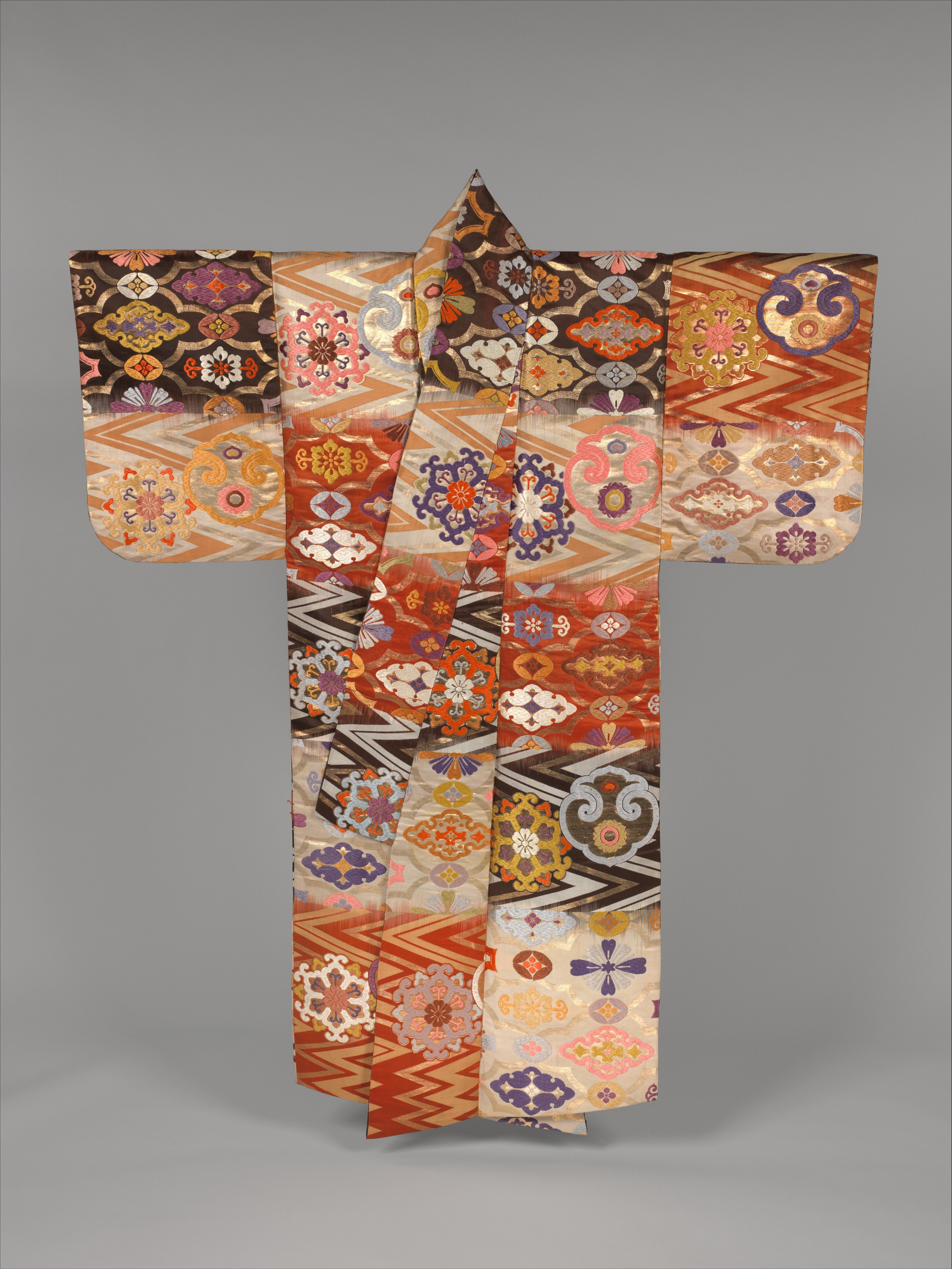 Japan; Noh robe (atsuita); Textiles-Costumes